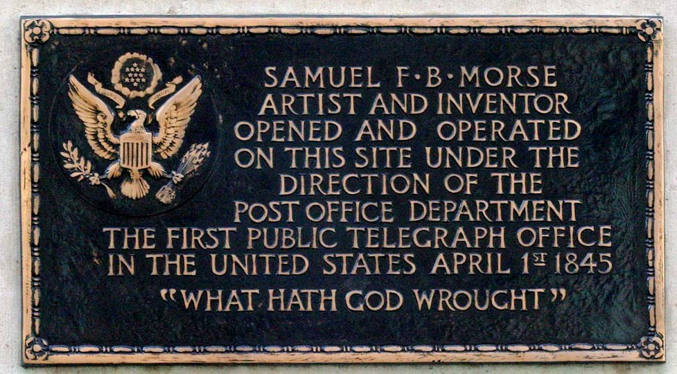 Samuel F. B. Morse plaque - Old Post Office Bldg, 7th Sts between F and G NW, Washington D.C.